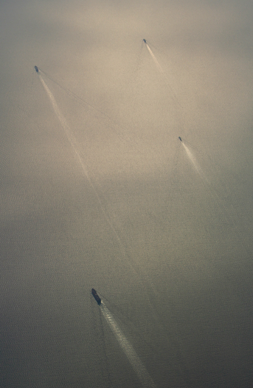 I love this shot of ships in the English Channel. From 20,000ft. See it on Black